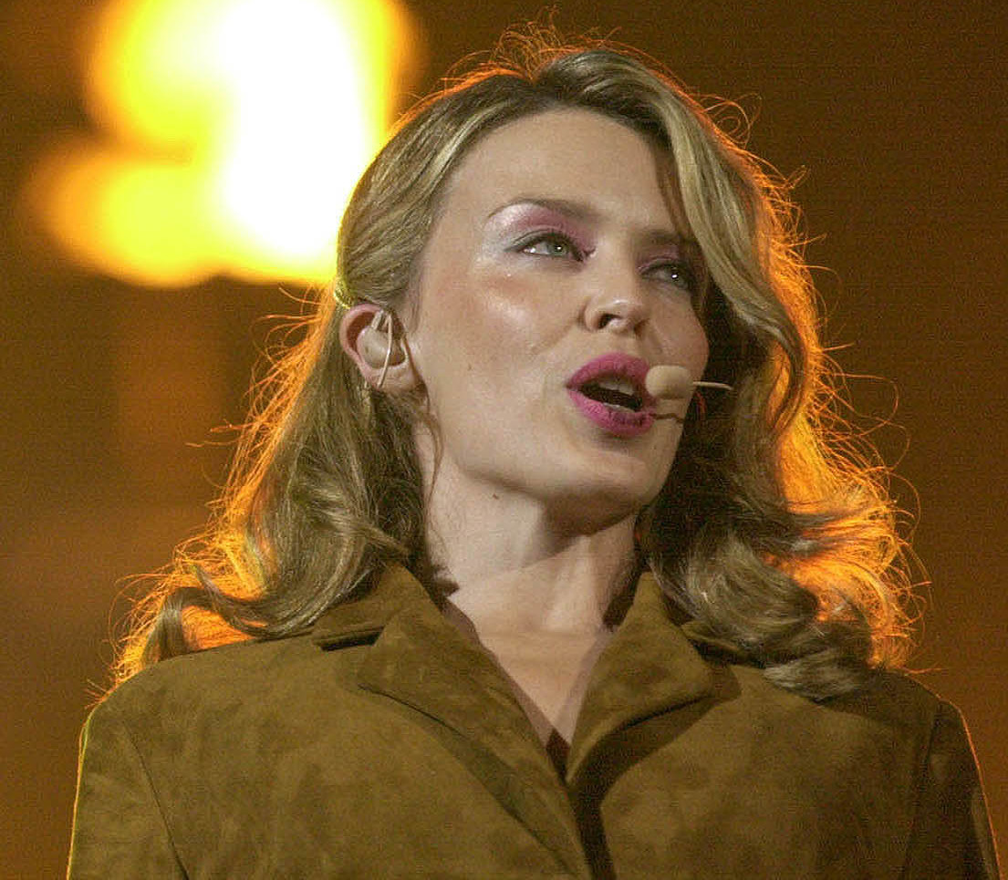 Australian singer Kylie Minogue performing infront of the Paralympic Flame during the Sydney Paralympic Games Opening Ceremony